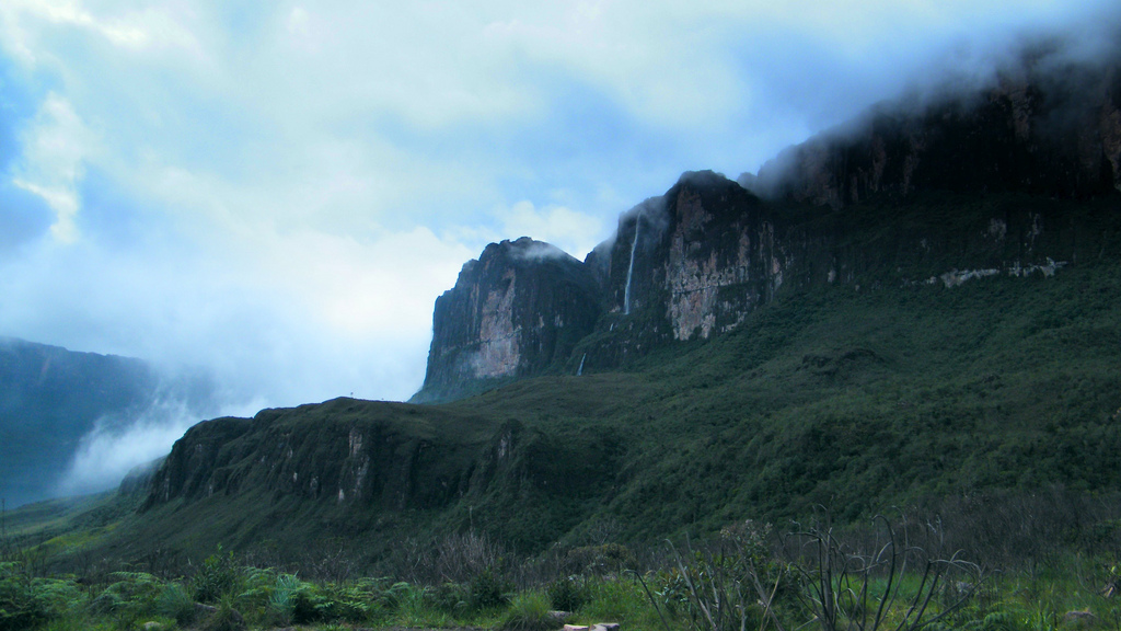 A Waterfall after the rain, mount Roraima, Venezuela